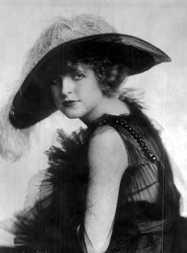 Kathlyn Williams